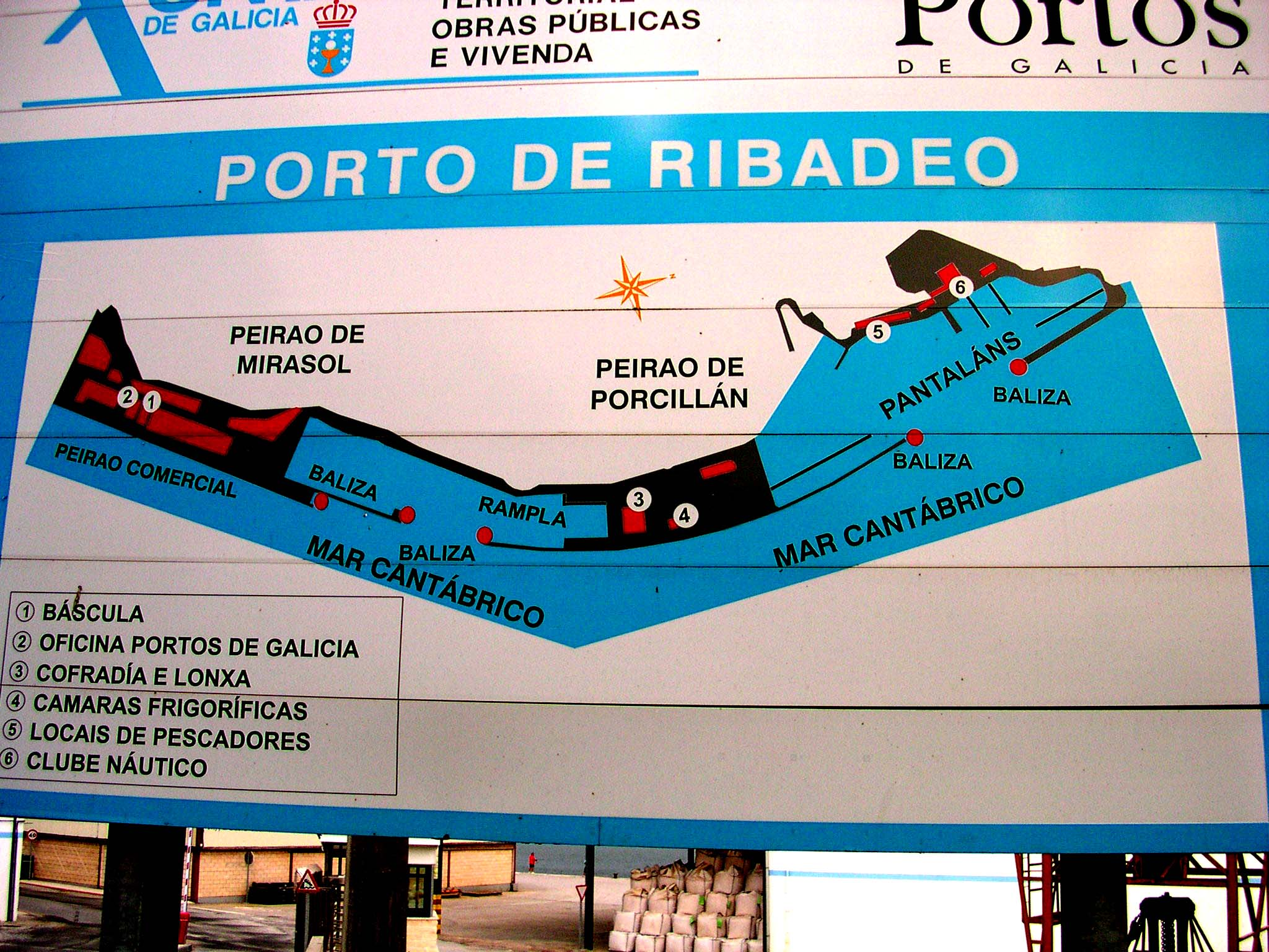 A panel in Ribadeo Docks